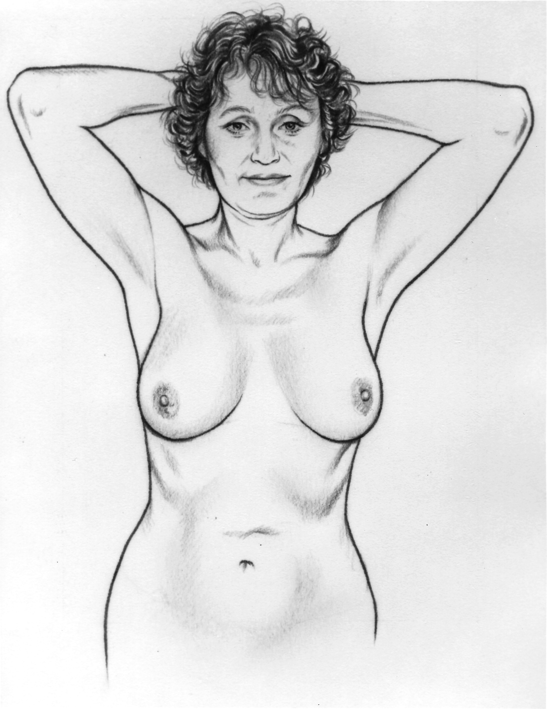 Title Breast Self-Exam Illustration (Series of 6) Description This is the second image in a series of six illustrations showing how to do breast self examination (BSE). Image shows a nude woman with her hands behind her head. See other images: Topics/Categories Cancer Types -- Breast Cancer Historical -- Graphics Test or Procedure -- Physical Exam Type B&W, Medical Illustration Source National Cancer Institute